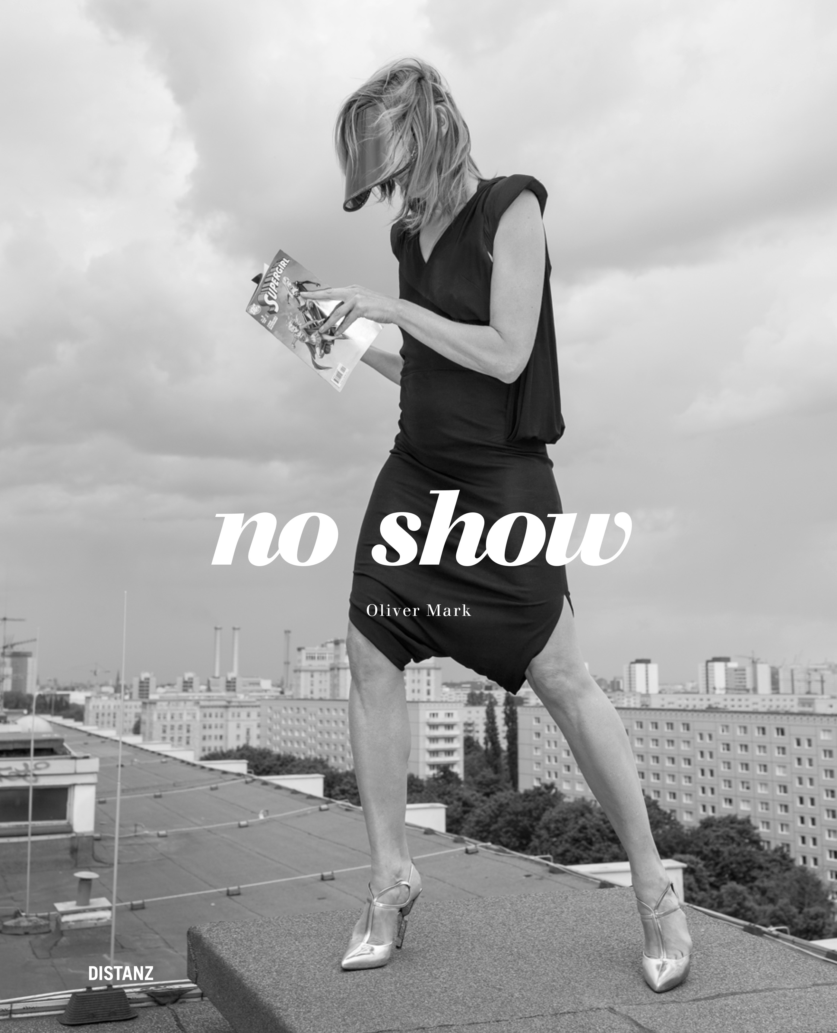 No Show. Distanz Verlag, Berlin 2019, ISBN 978-3-95476-281-1.